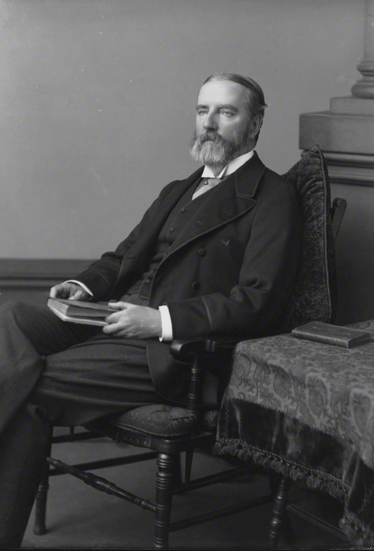 Photograph of Sir Edward Maunde Thompson taken in 1899